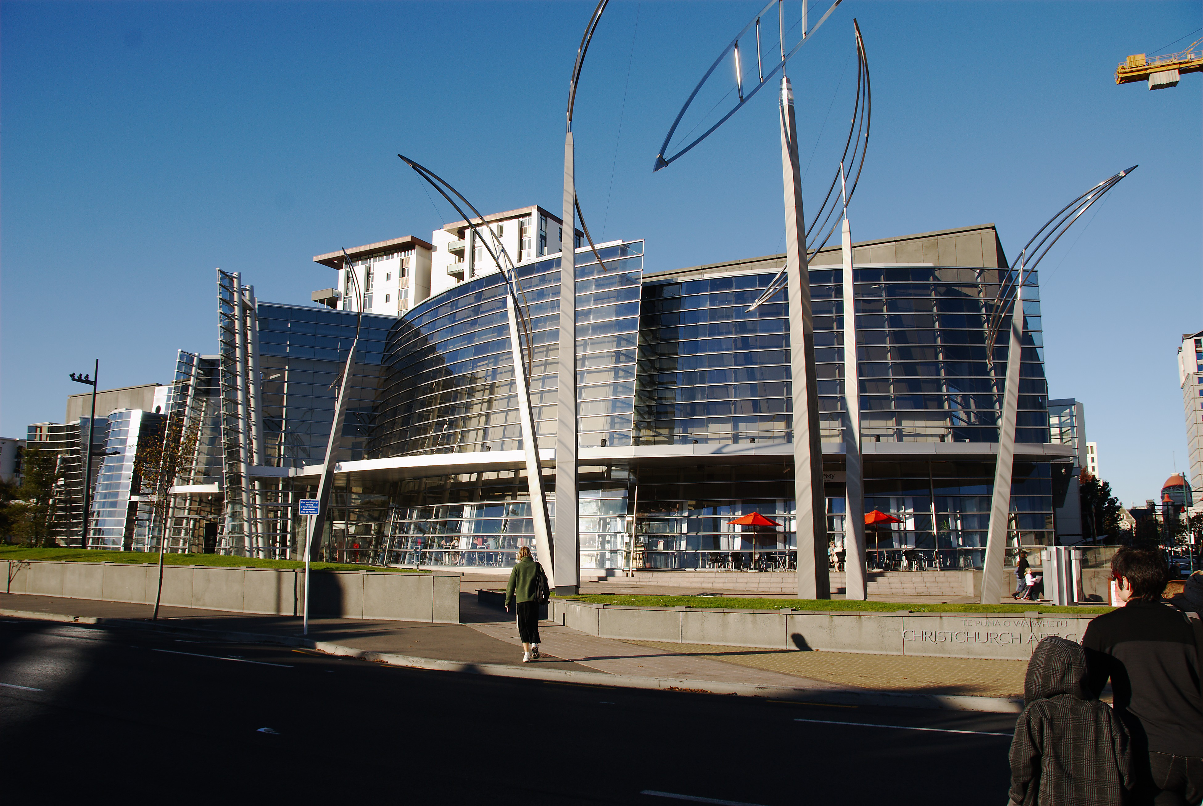 Christchurch Art Gallery, New Zealand